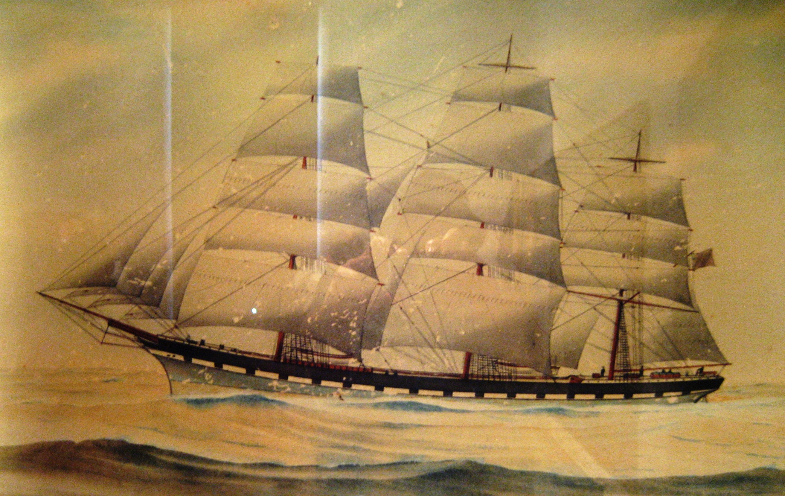 City of York barque. This is a photo of a photo of an original painting given to the lighthouse keeper, David Mitchinson and his wife Kathleen in apreciation for the efforts in rescuing the crew of the City of York. Original photo is in the Rottnest museum.